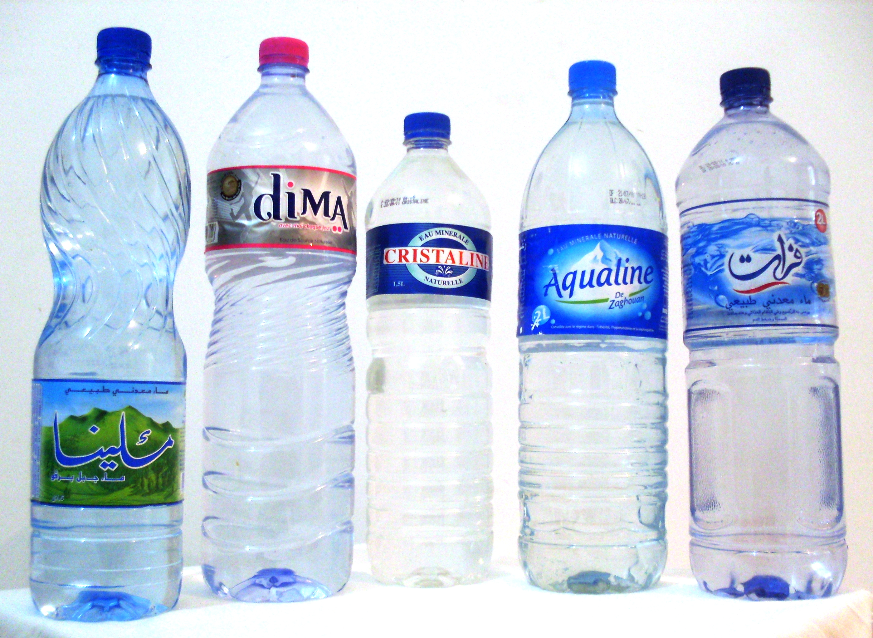 Eaux Minérales Tunisie